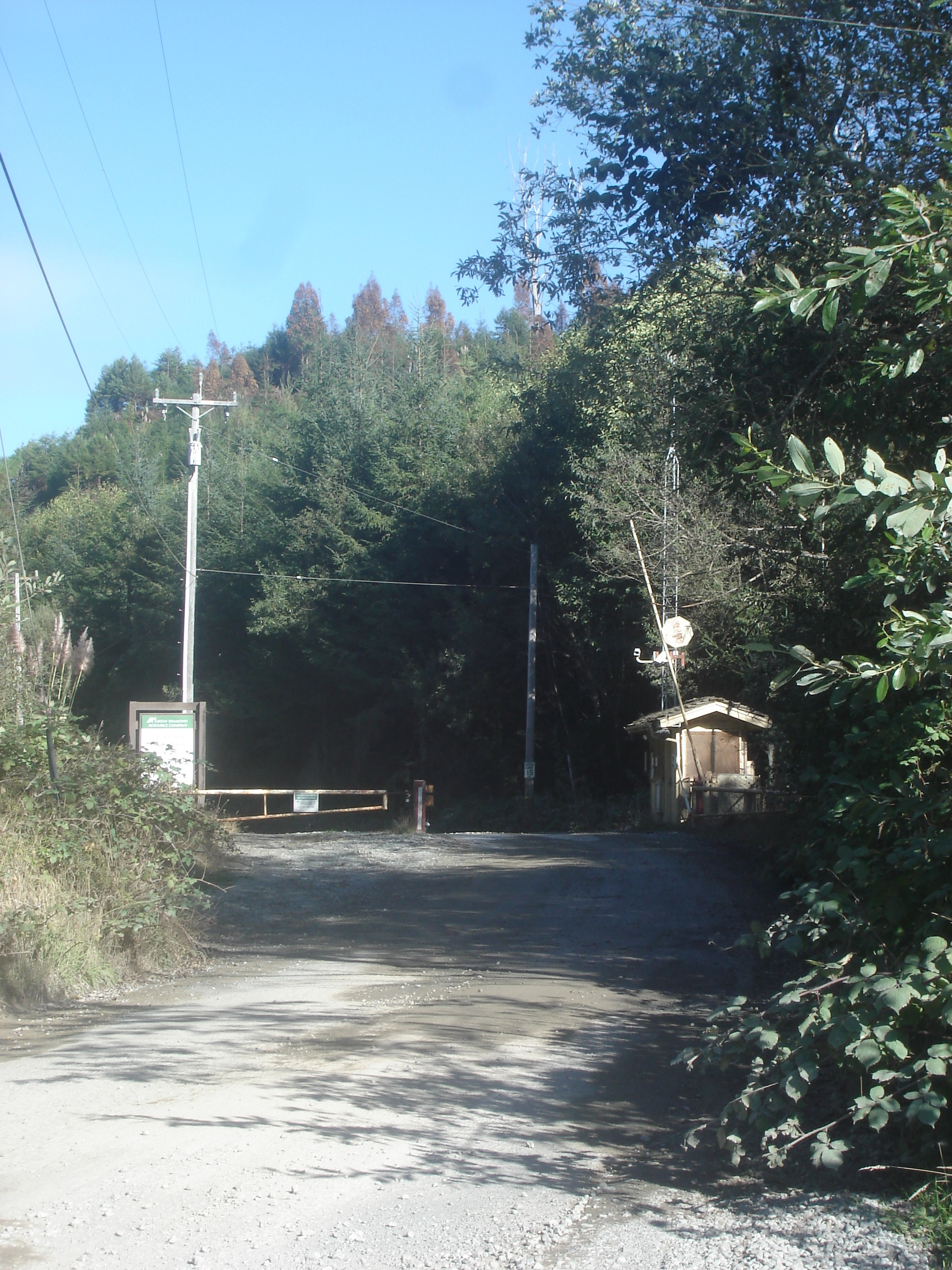 Gate on access road to Crannell, California